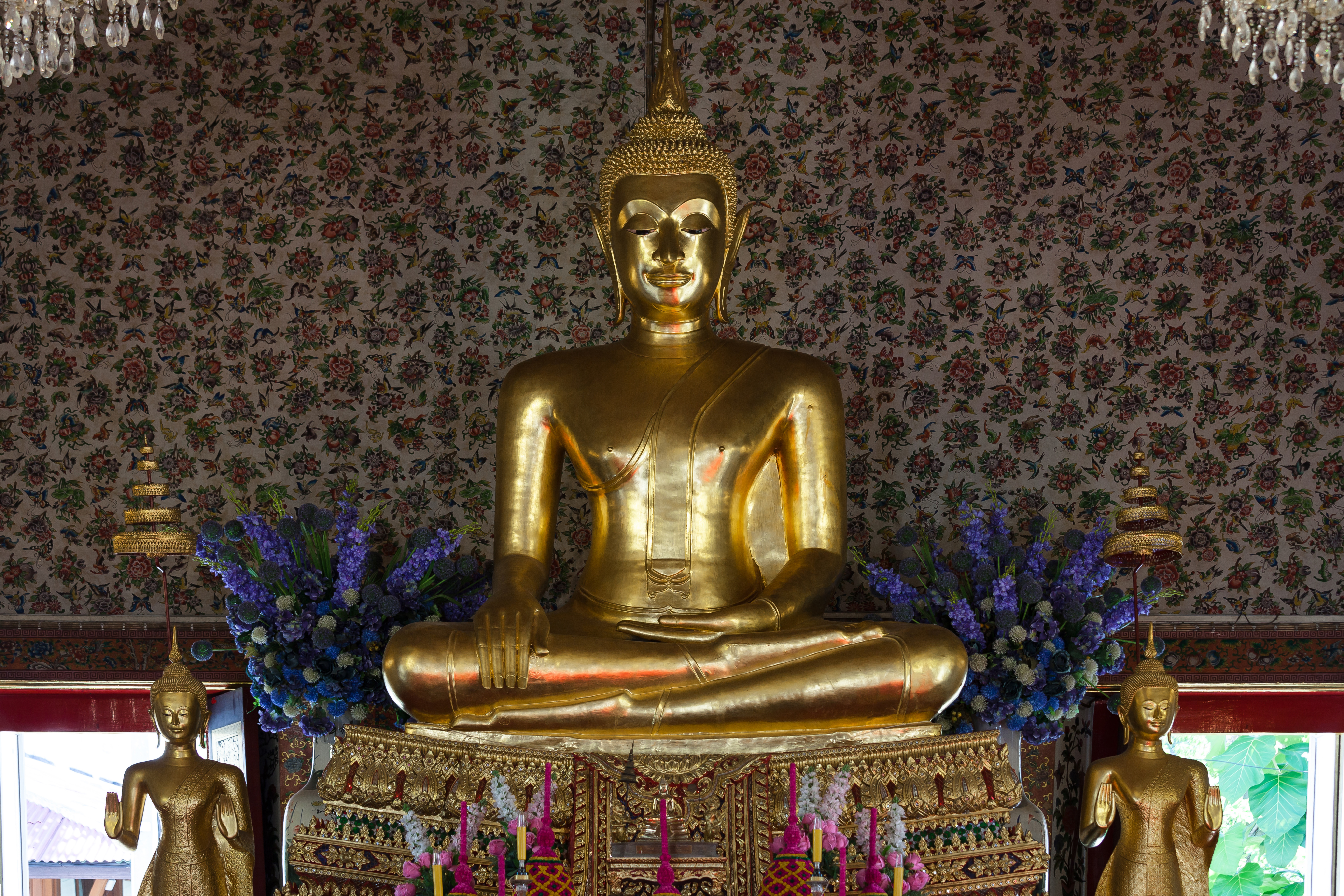 Phra Phuttha Kesorn in Ubosot of Wat Sam Phraya, BKK.